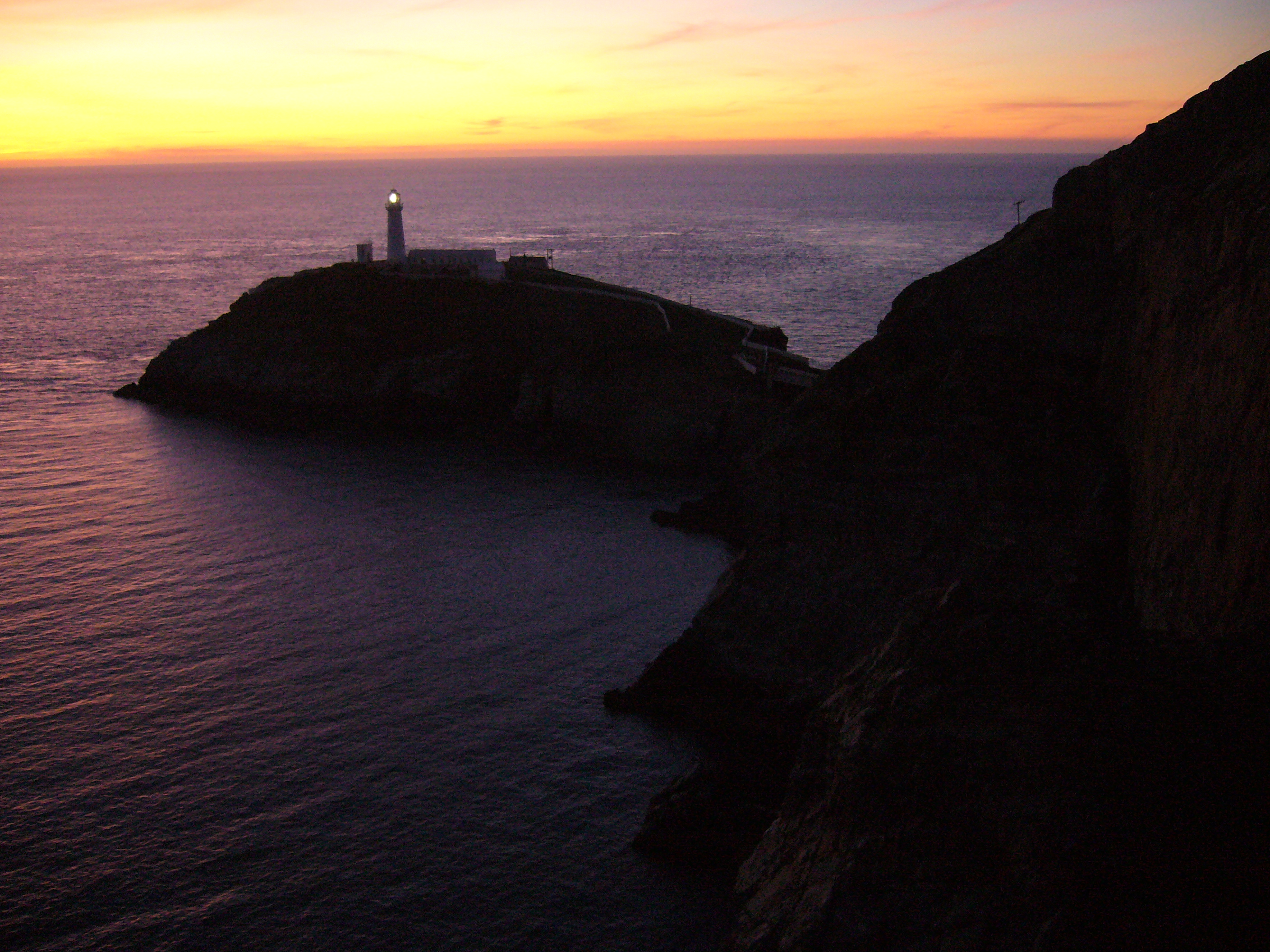 South Stack lighthouse at sunset.